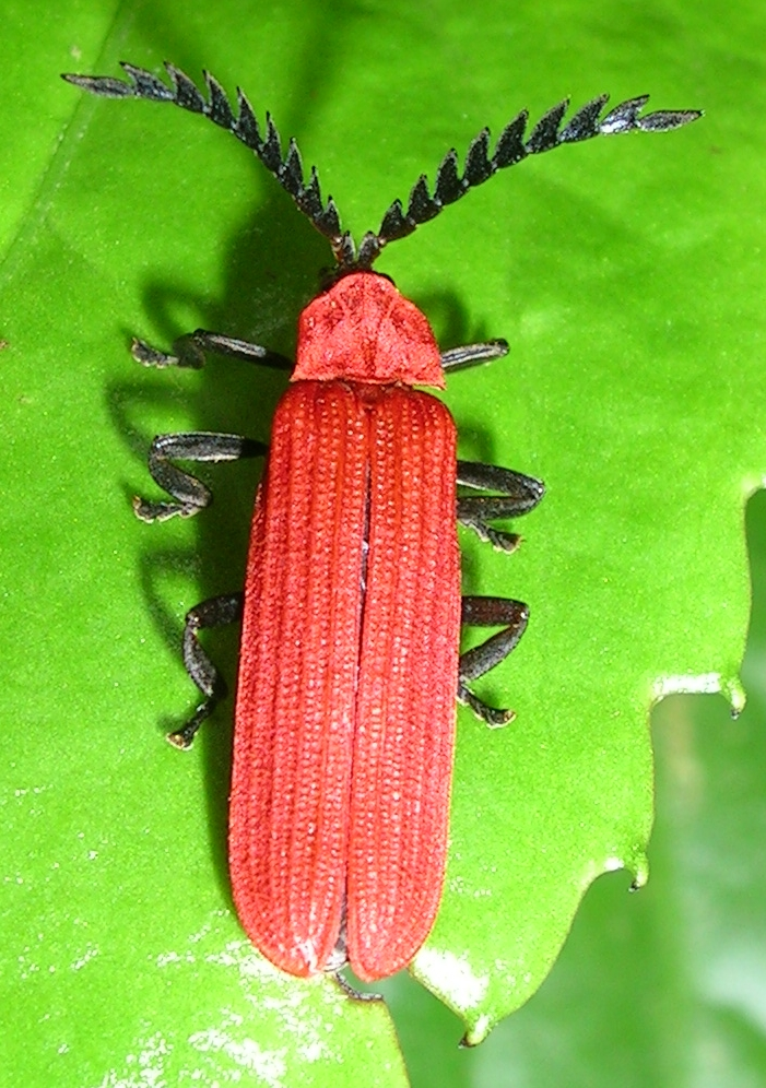 Beetle of family Lycidae from Wayanad